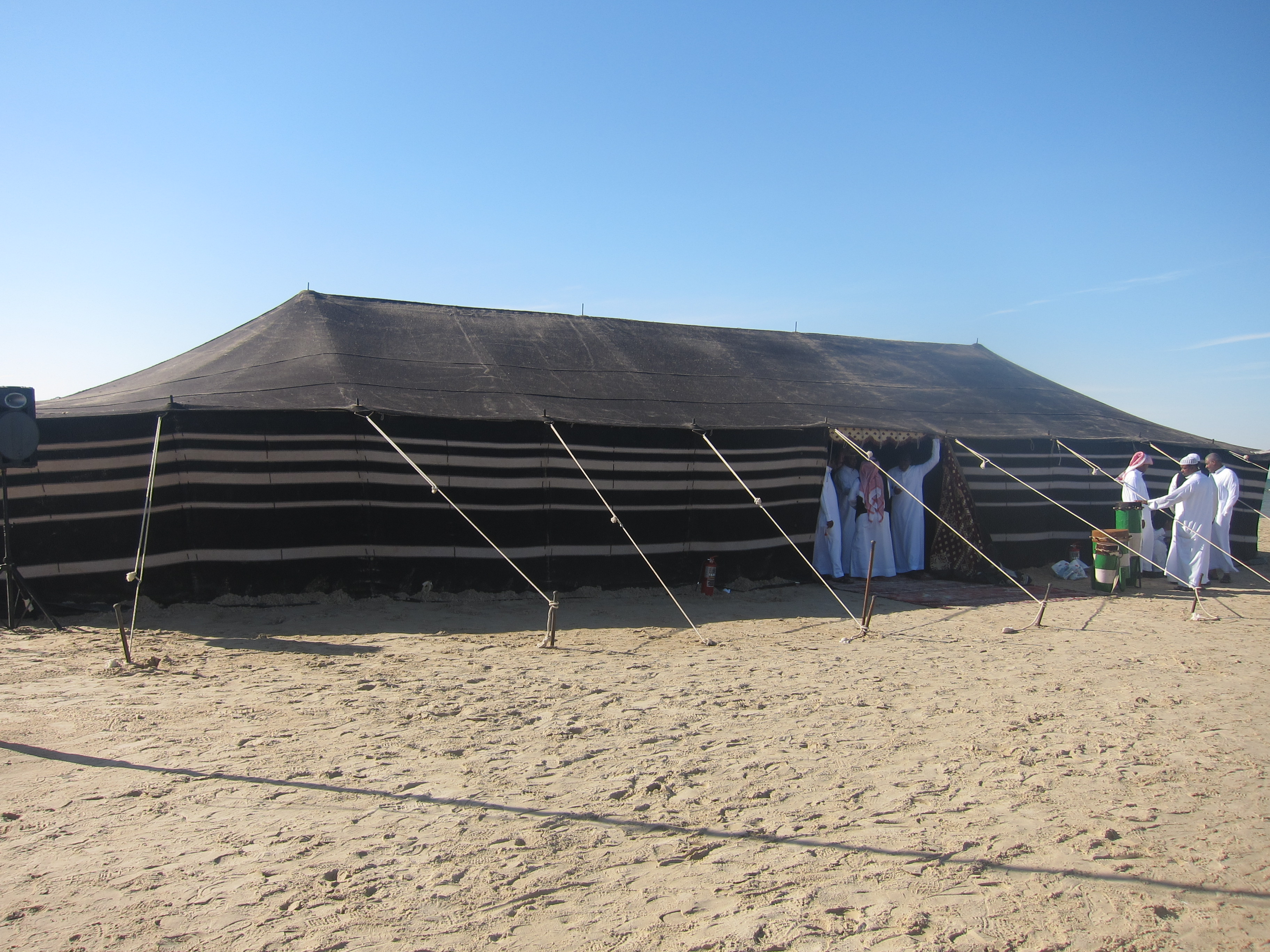 Saudi Culture - സൗദി സംസ്കാരം